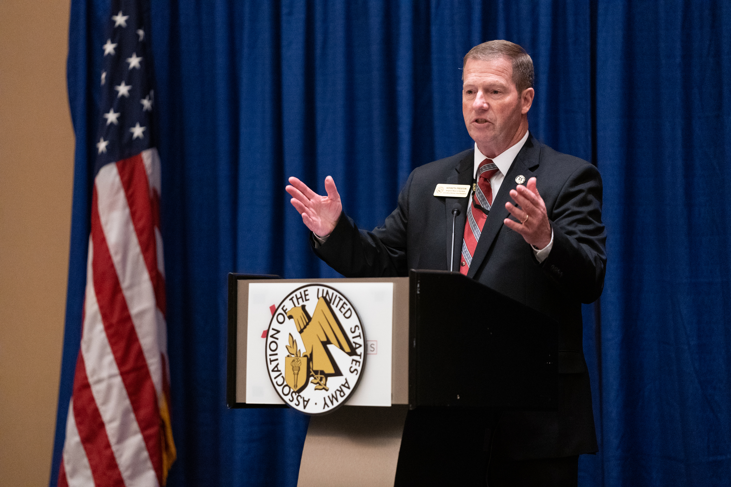 Retired Sergeant Major of the Army Kenneth O. Preston, Vice President for Noncommissioned Officer & Soldier Programs, speaks briefly at an AUSA breakfast for the Fifth, Sixth, and Seventh regions in Washington, D.C., on Oct. 16, 2019. (DoD Photo by U.S. Army Sgt. James K. McCann)